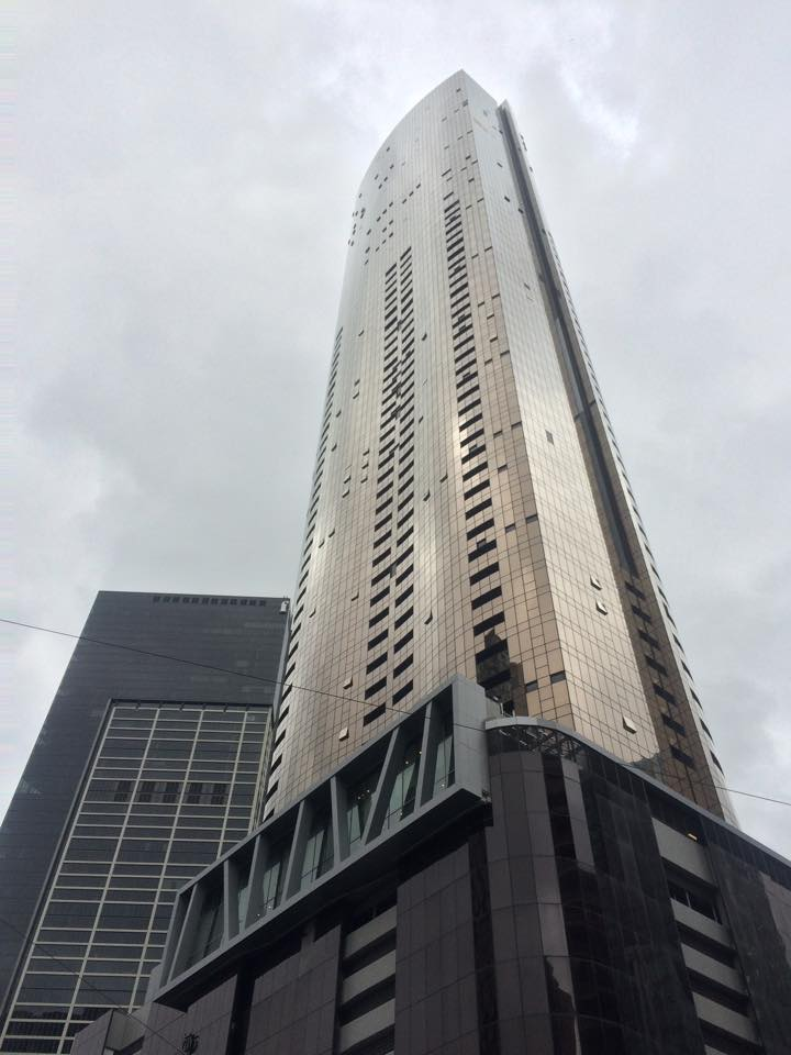 The Prima Pearl Tower in Melbourne, complete, in January 2015.